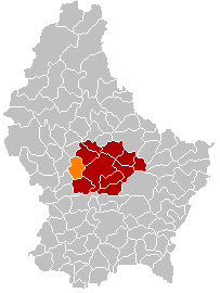 Own edit of Kanton MerschLocatie.png